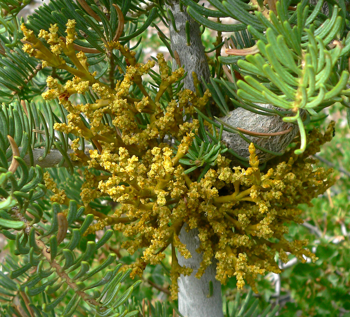 Arceuthobium abietinum on North Loop trail east of Mummy Mountain, Spring Mountains, southern Nevada (elev. about 2800 m)